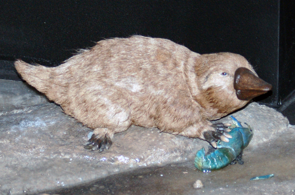 Photo: model of Steropodon galmani at the Australian Museum, Sydney.